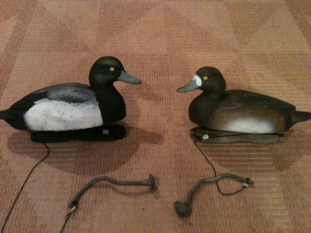 Greater scaup (Aythya marila) decoys.